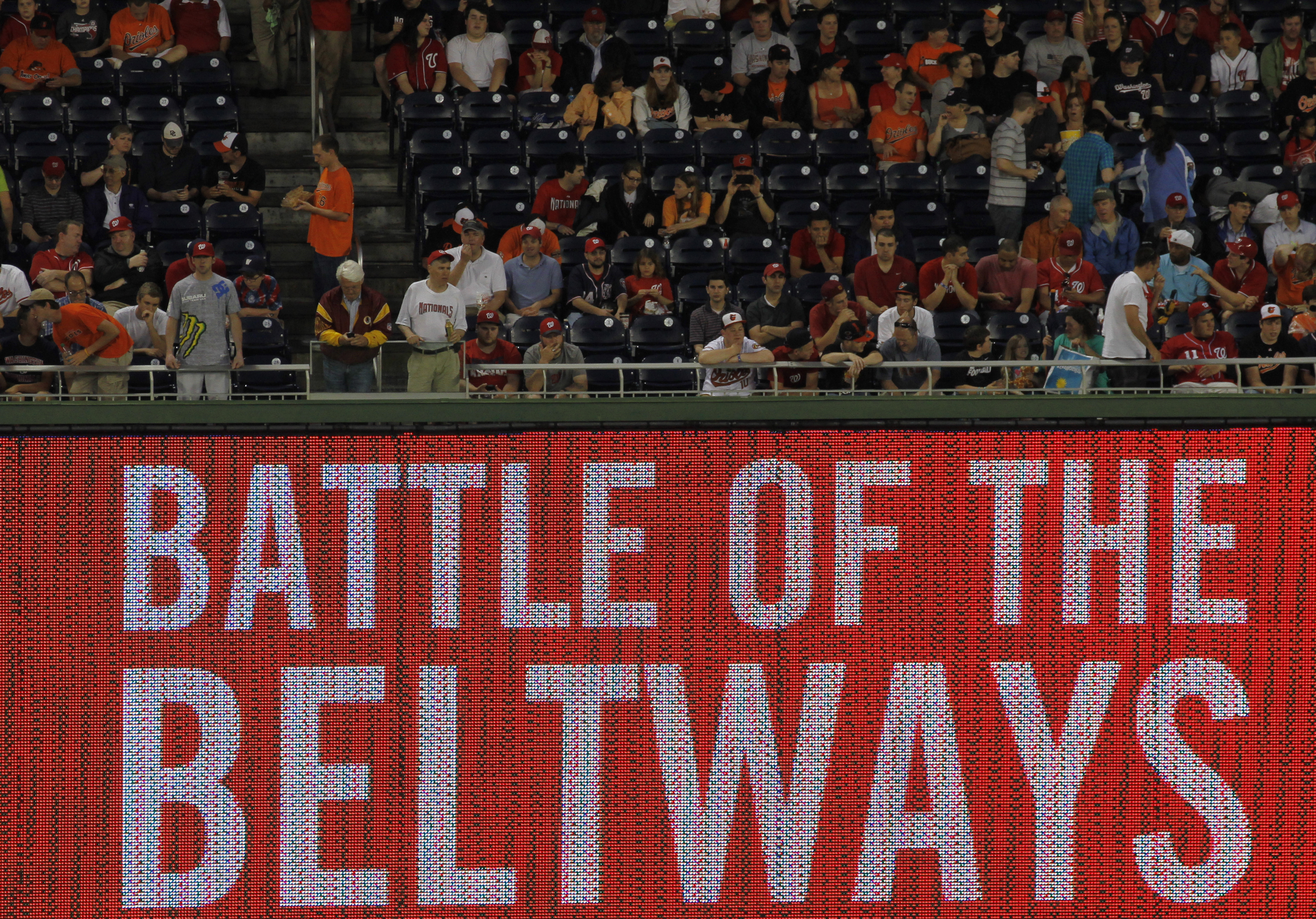 An LED sign on the outfield wall at Nationals Park in Washington, D.C. reads "BATTLE OF THE BELTWAYS."